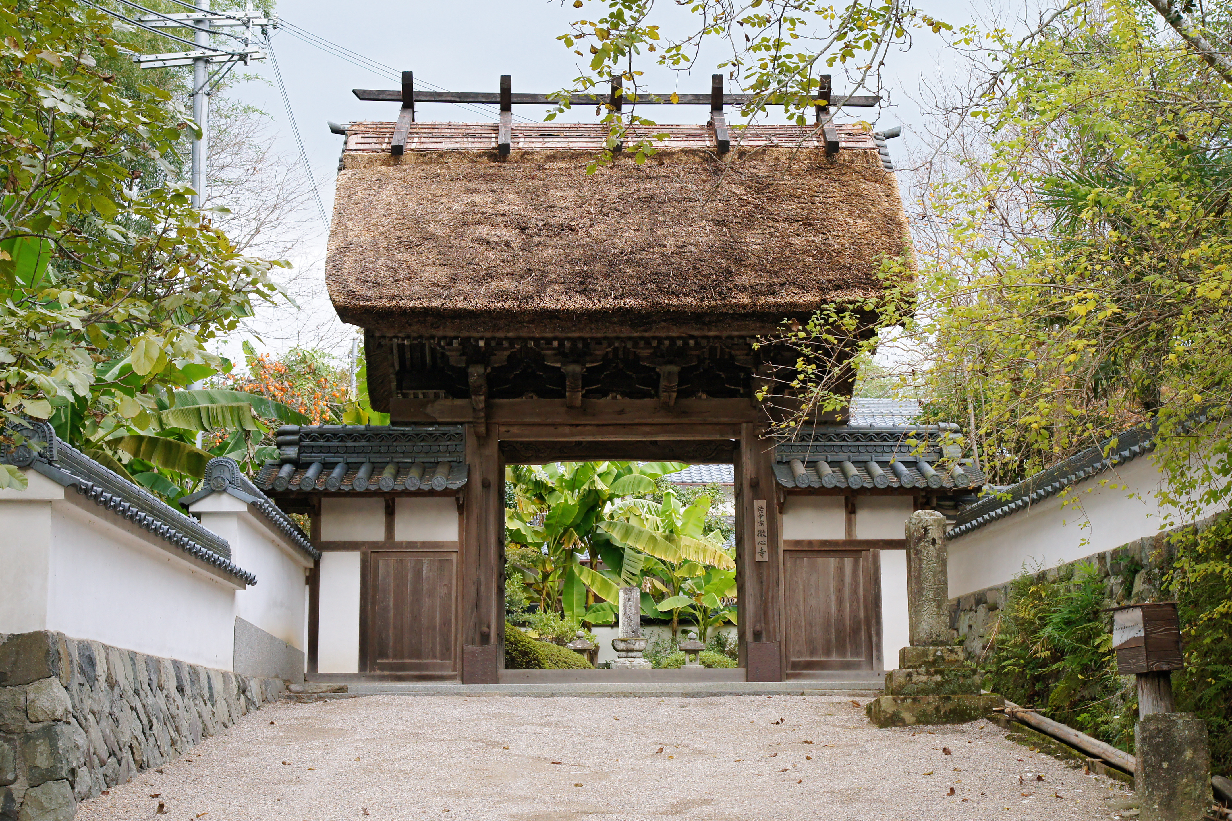 Tesshin-ji in Kamikawa, Hyogo prefecture, Japan